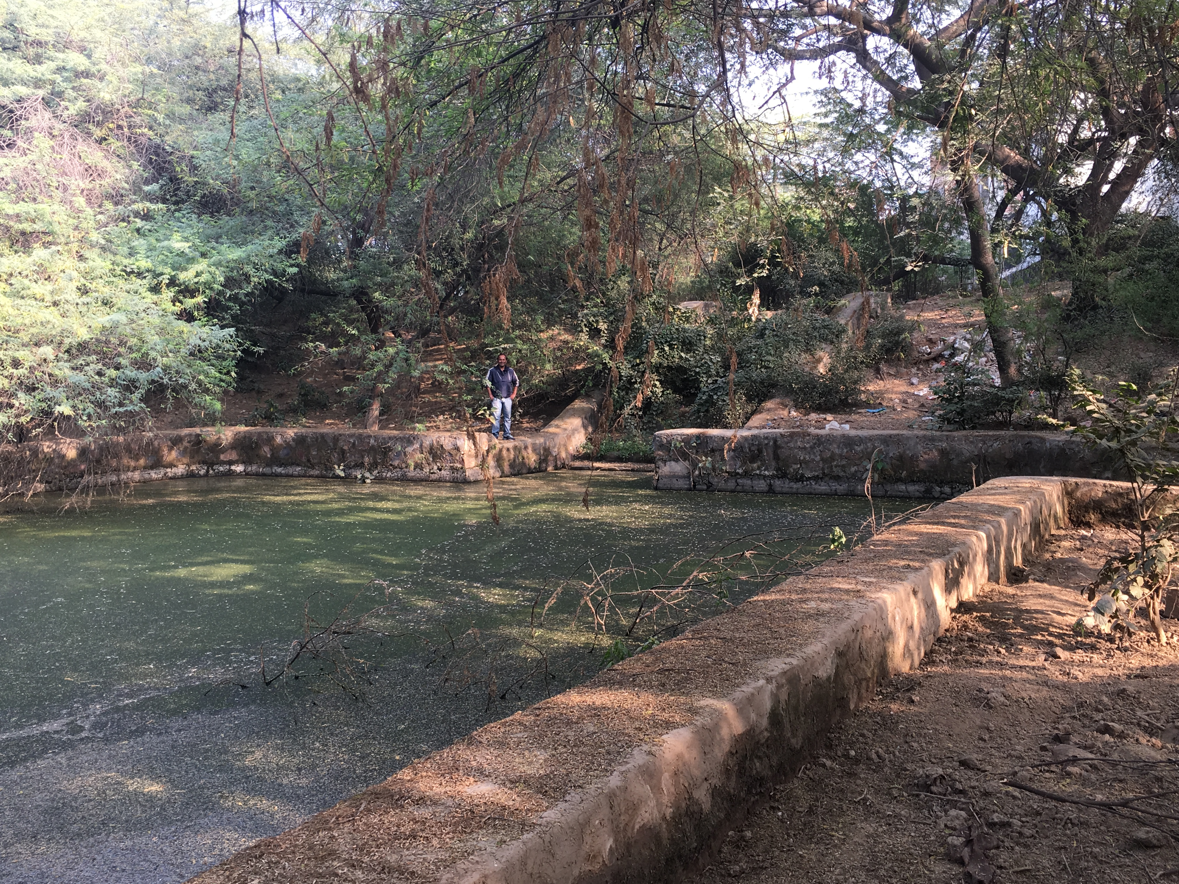 Anangtal Baoli on 8 Decemeber, 2018.